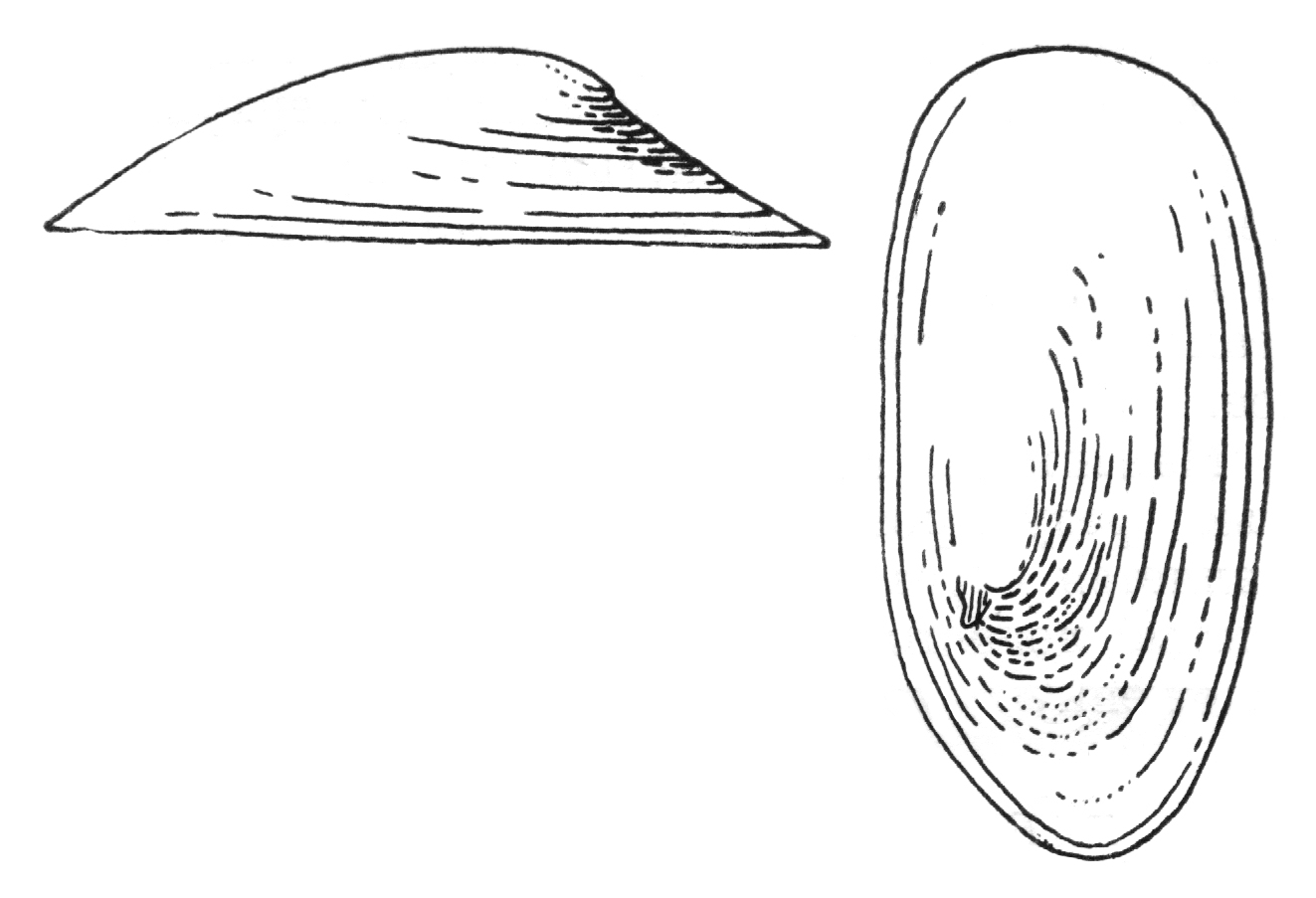 drawing of Acroloxus lacustris